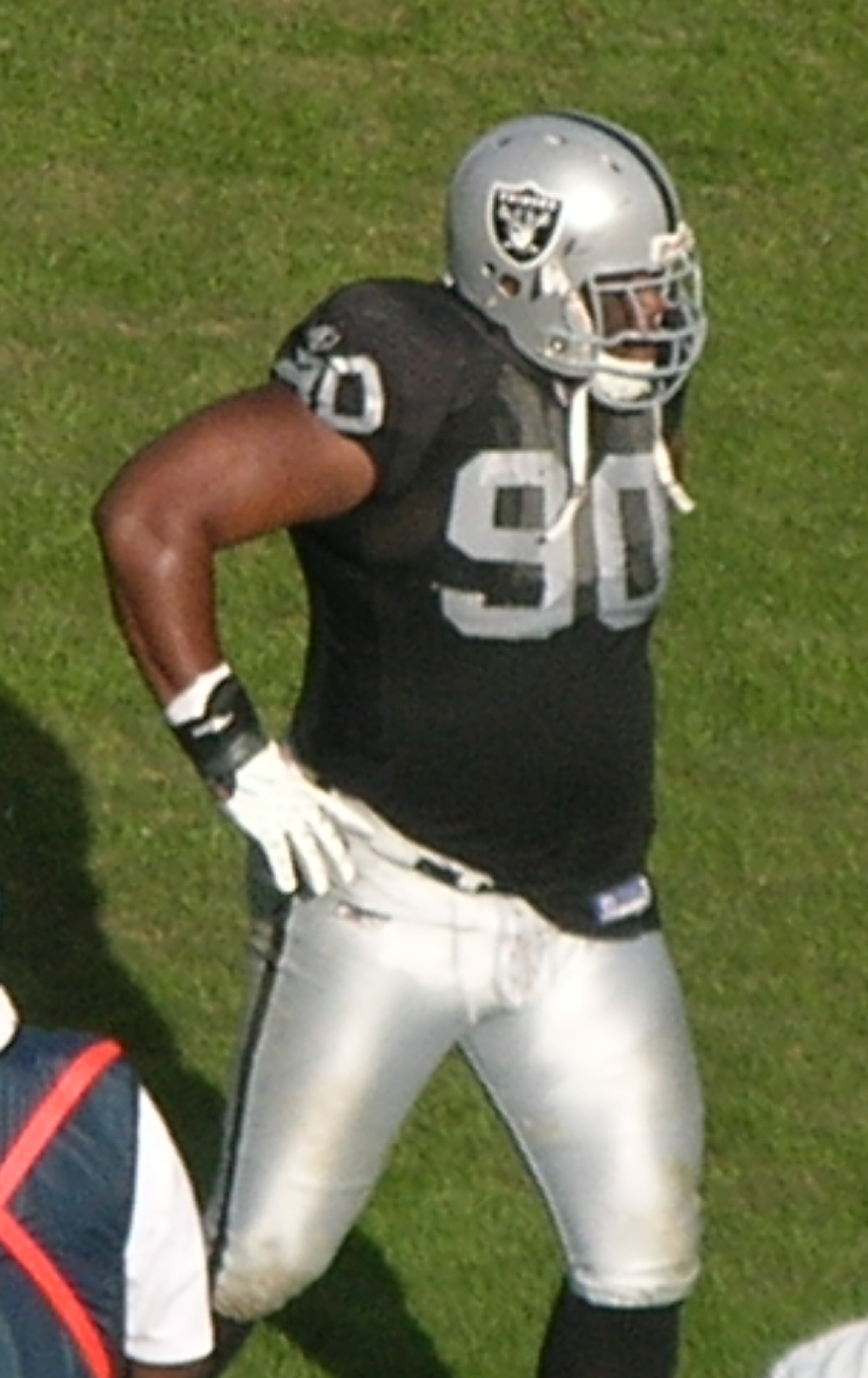 Oakland Raiders defensive tackle Terdell Sands at a home game against the Atlanta Falcons. The Falcons won 24-0.